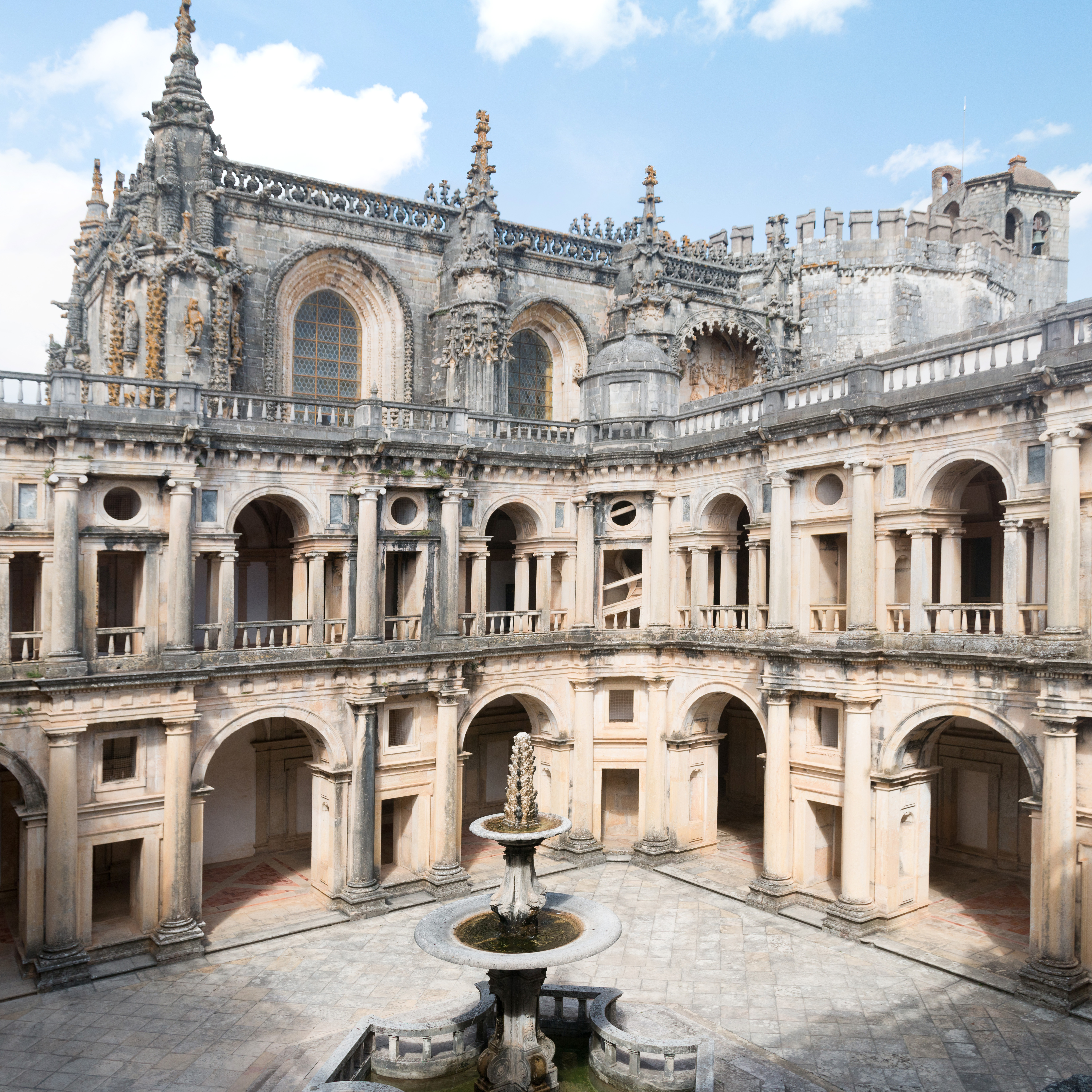 General view of the cloister to the church.